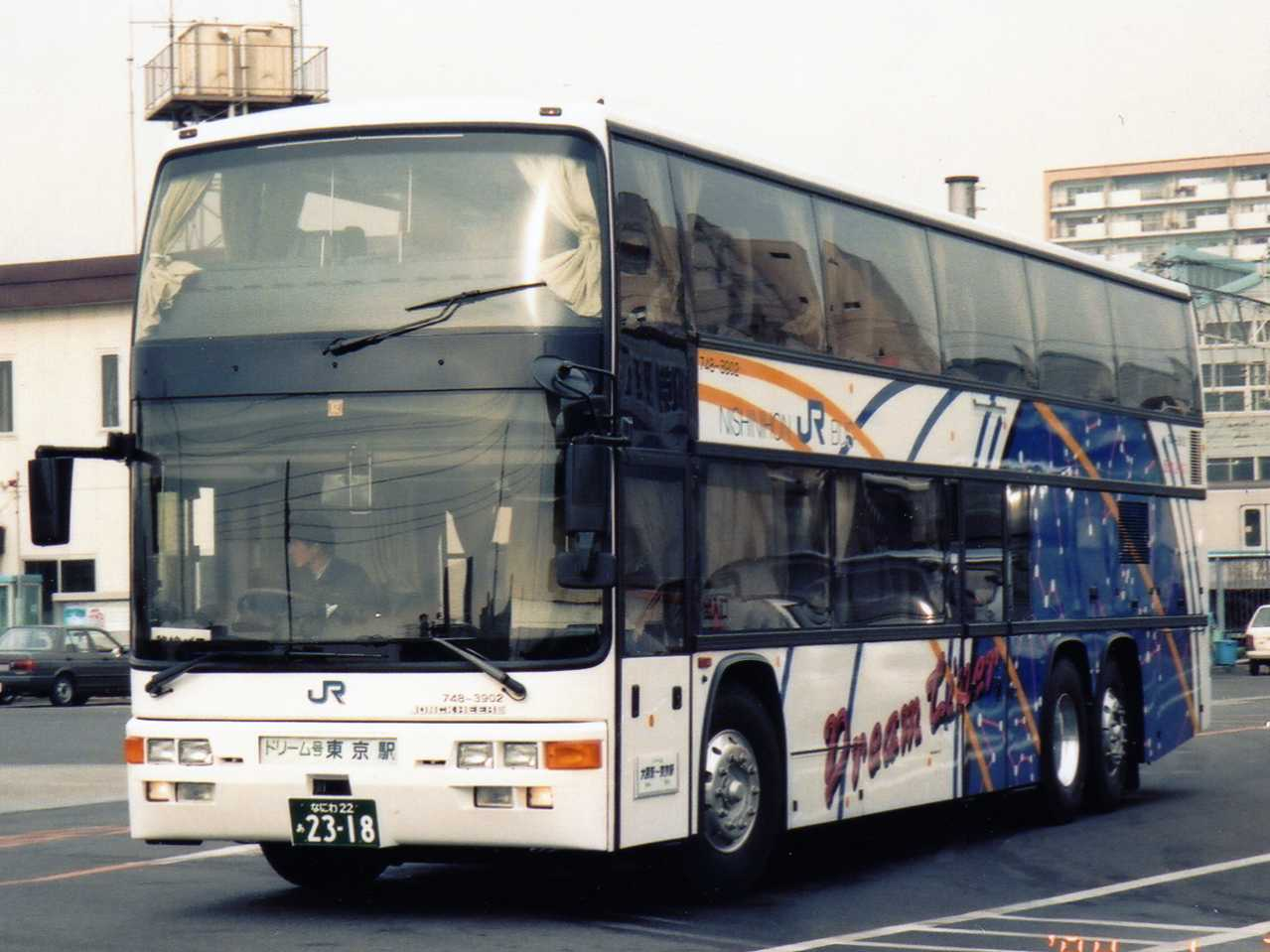 Nishinihon JR Bus （西日本ジェイアールバス） 748-3902 Jonckheere Monaco with Nissan-Diesel chassis （日産ディーゼル・ヨンケーレ） 1994-01-03 JRバス関東東京支店にて許可を得て撮影 Photo by Cassiopeia_sweet. This picture is obtaining and photoing permission of the persons concerned.